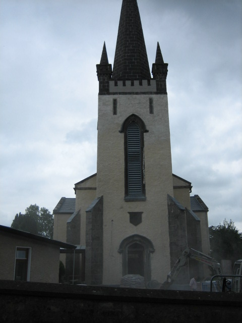 St George's, Carrick-on-Shannon. This Church of Ireland parish church is, as I understand it, undergoing transformation for use as a community facility. It will continue to be used for worship by the C of I.